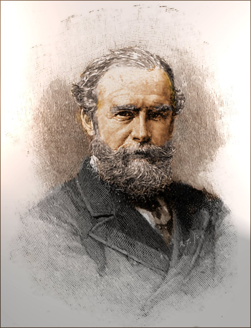 Sir John LUBBOCK, age 55